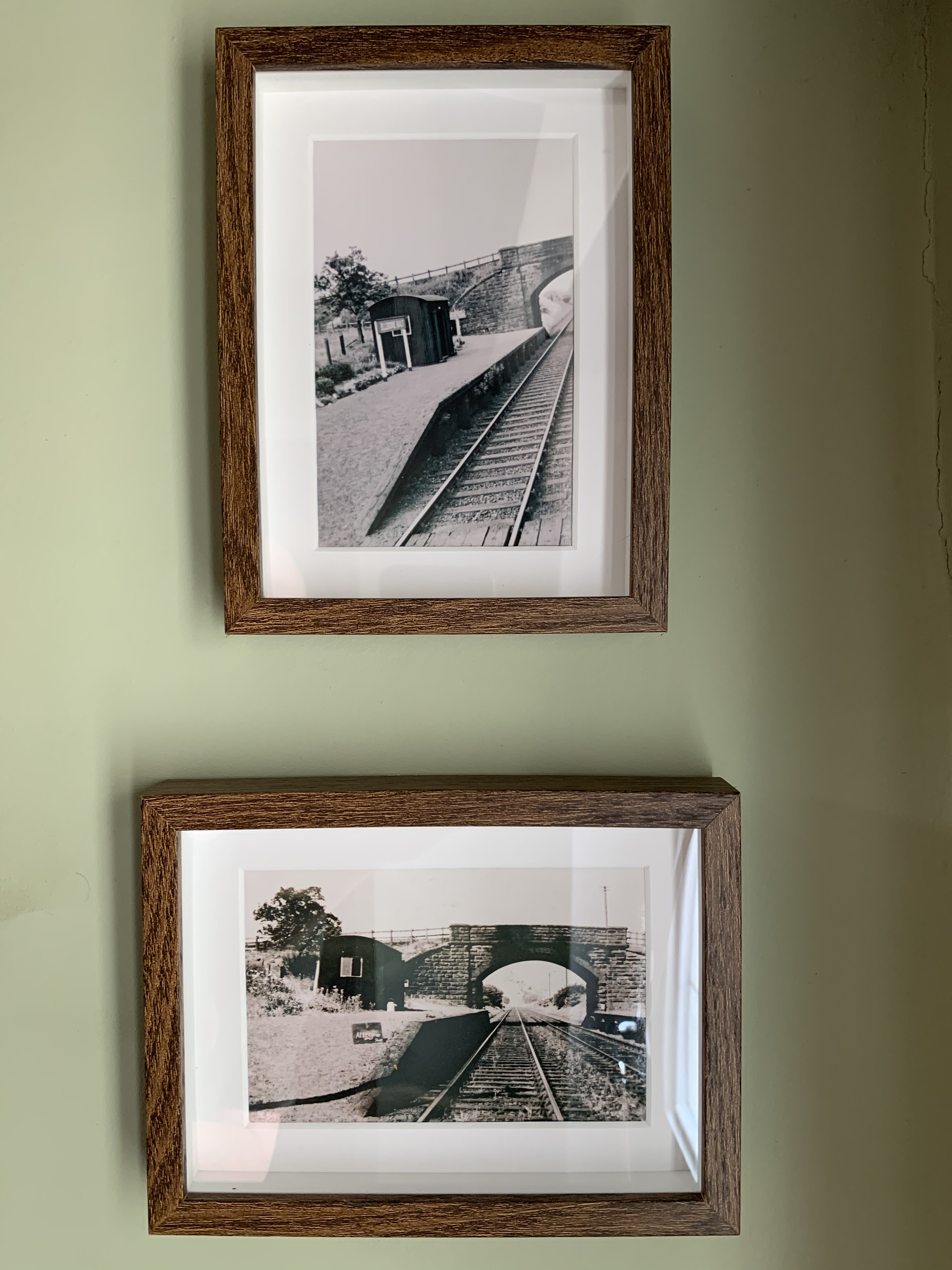 Two photographs taken of Ellerdine Halt platforms on unknown dates. The present owners of Station Cottage (the old station masters Cottage) discovered the photographs in deeds paperwork in 2019.